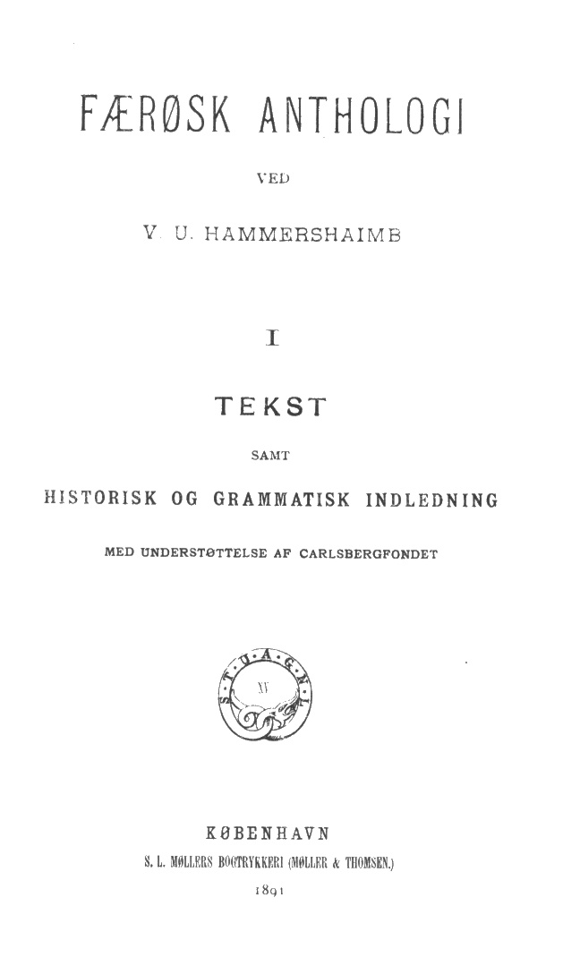 Front page of book Færøsk Anthologi by V.U. Hammershaimb. The book has 1050 pages